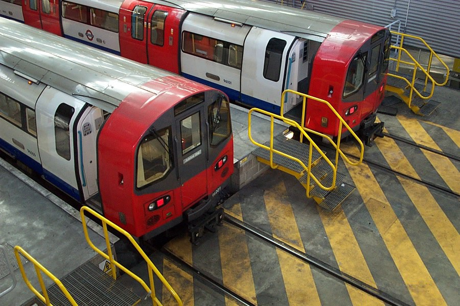 1996 London tube stock units stable at Stratford Market Depot.